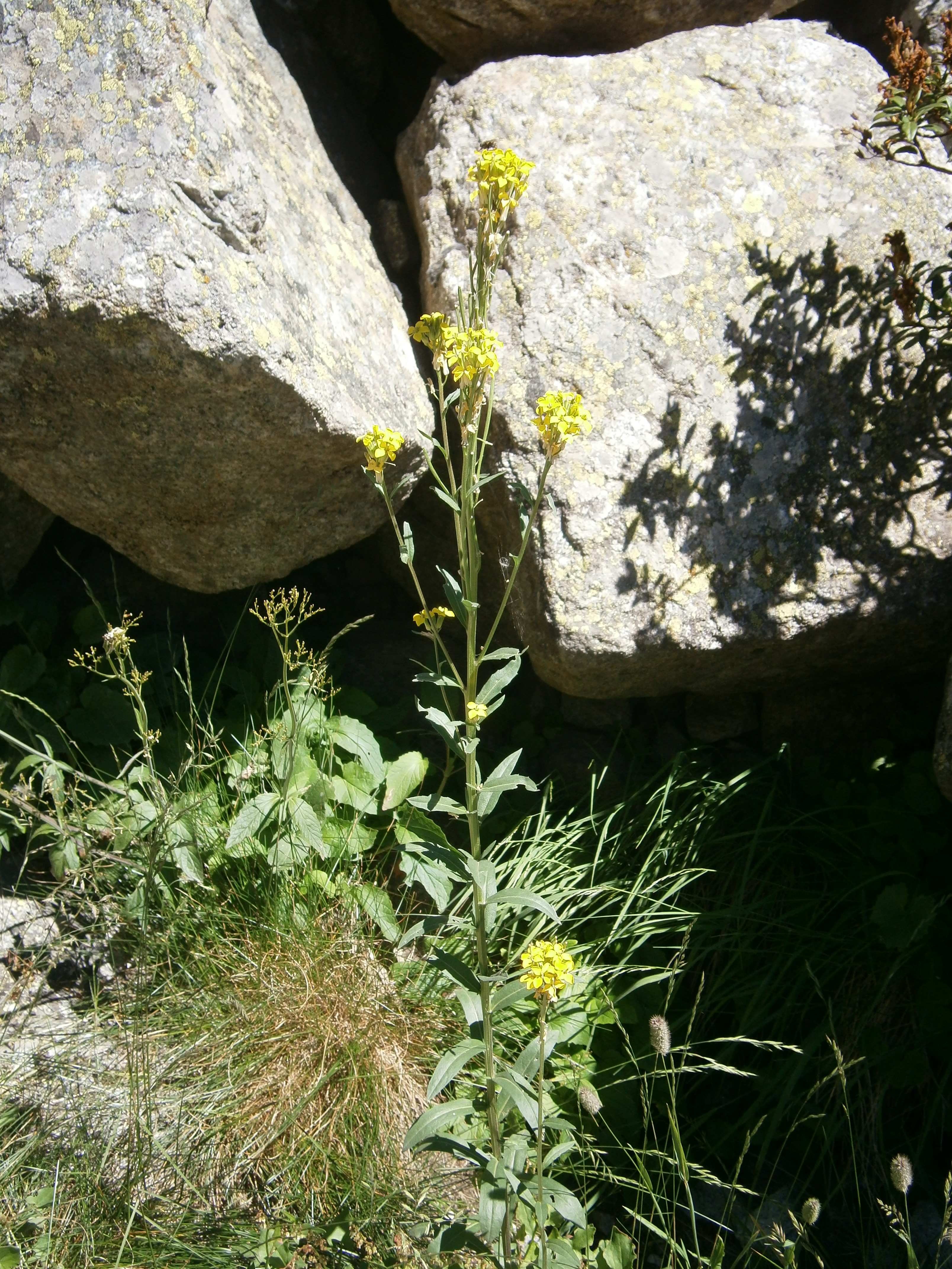 Erysimum hieracifolium